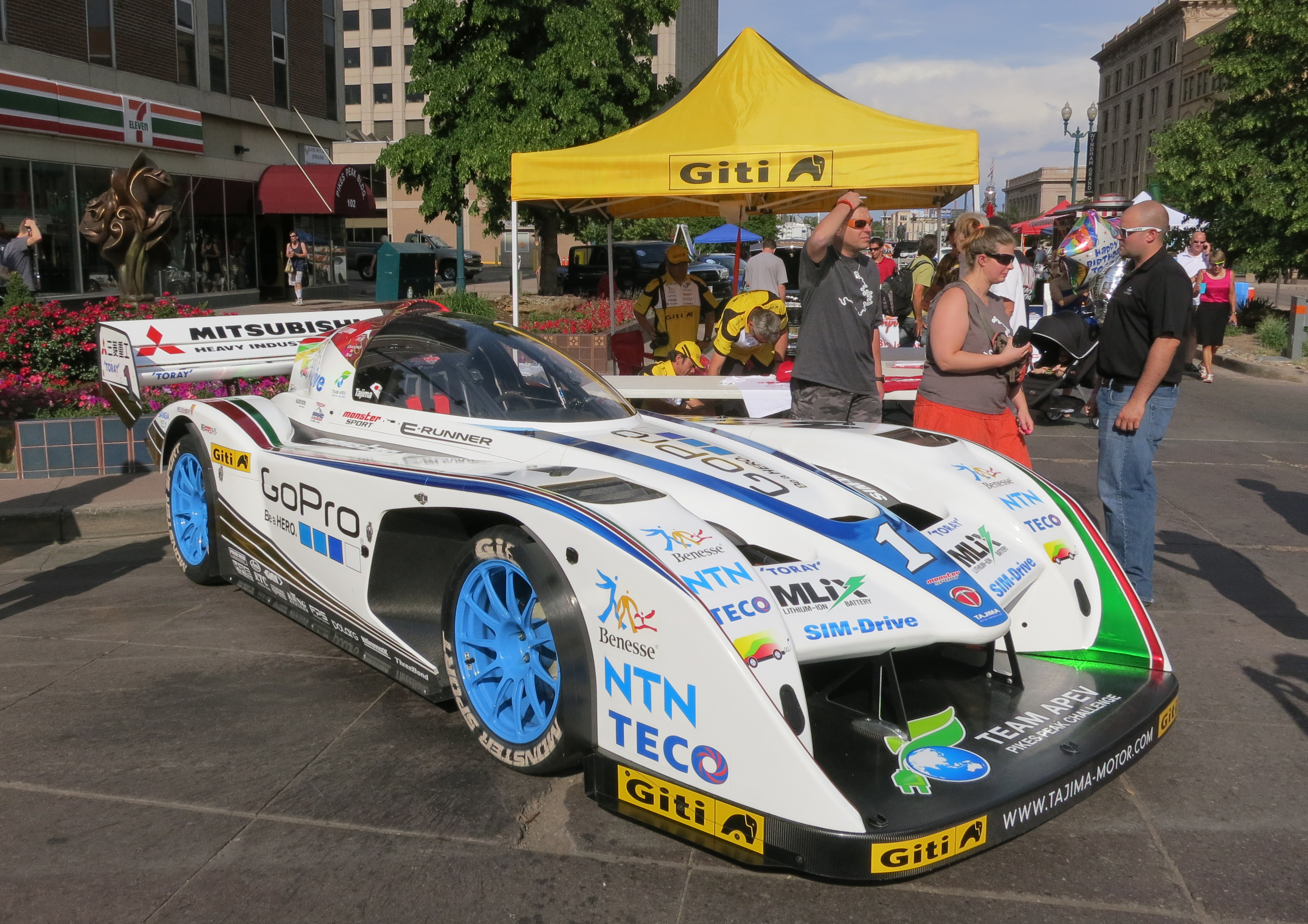 Latest Monster Mike Hoffman Tajima Electric Car displayed during 2013 PPIHC Fan Fest at Colorado Springs, USA.